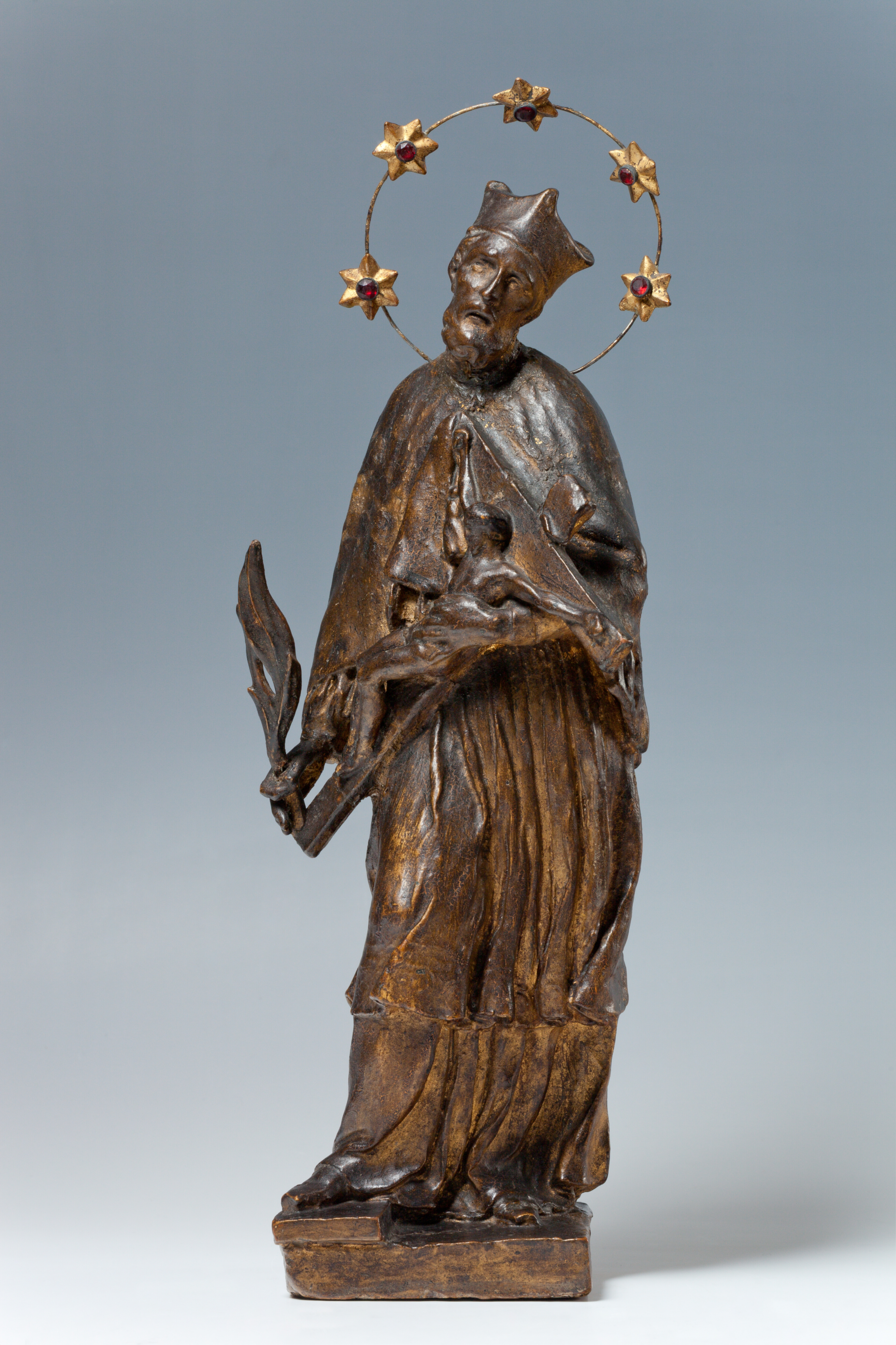 Matthias Rauchmiller's clay model (1681) for the statue of St John of Nepomuk which was placed Charles Bridge in Prague in 1683. Object is in collection of Prague's National Gallery which makes this image available as Public Domain. "When sharing, please include the artist name, artwork title, owner and the